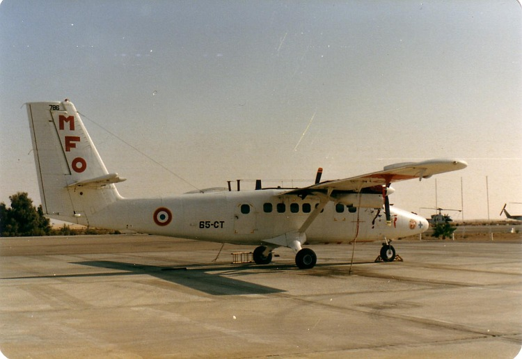 I took this photo of a French Air Force Twin Otter on the El Gorah flight line in 1989.